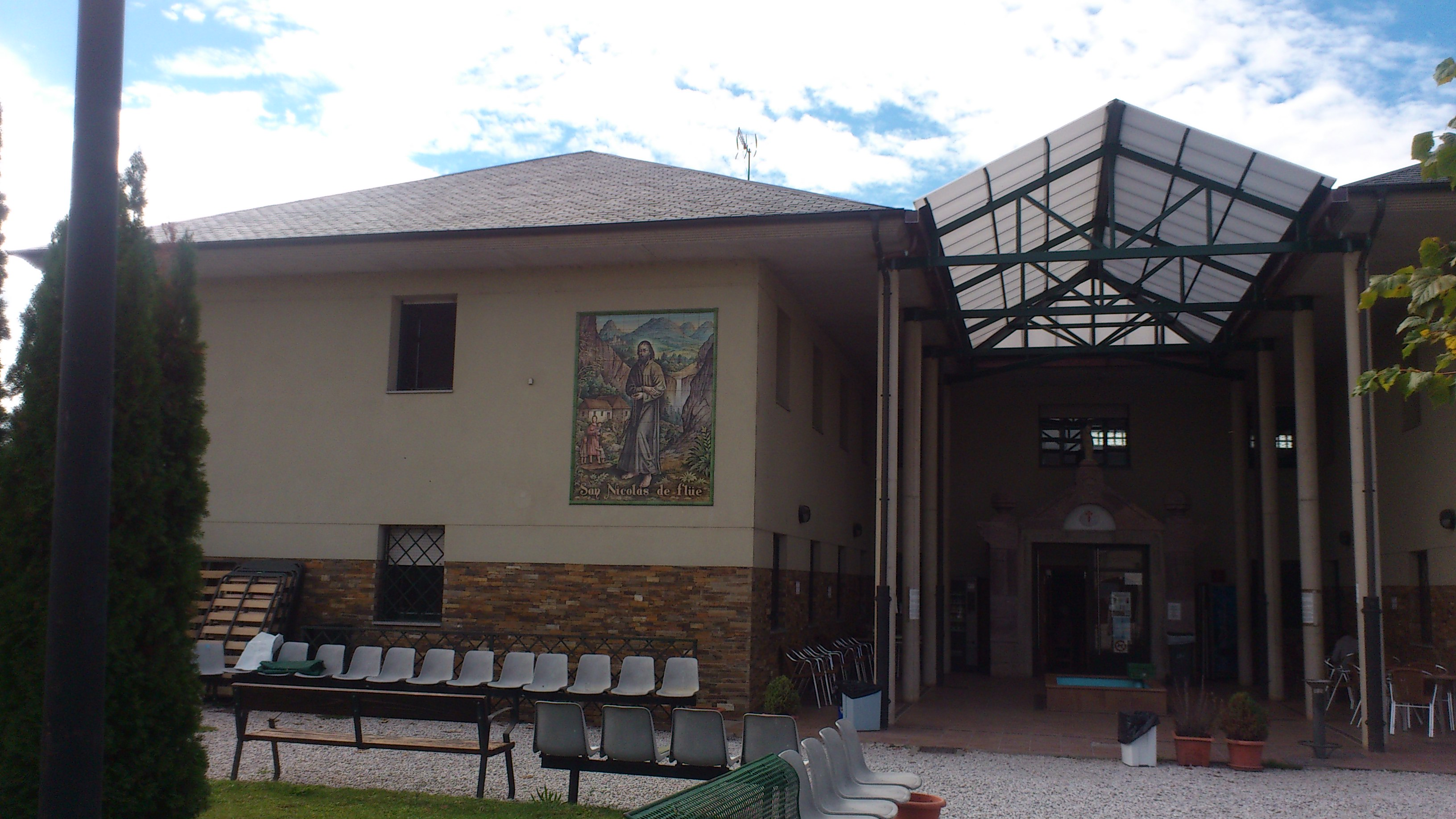 The pilgrim's hotel "San Nicolas de Flüe" in Ponferrada, Spain.